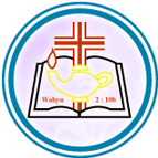 gksi setia